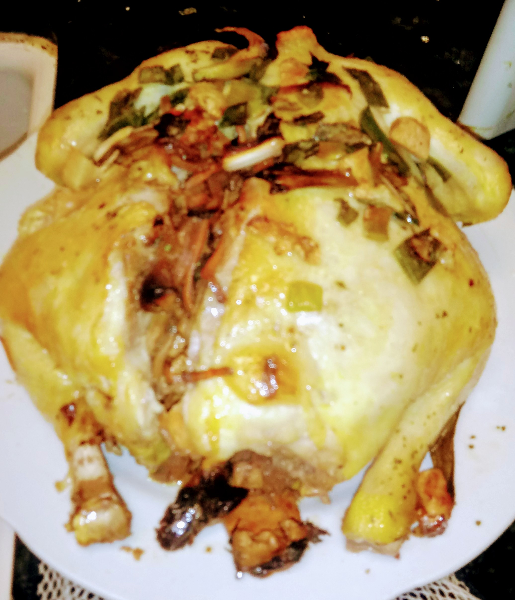 A dish of Beggar's Chicken, prepared in Clovis, California, cooked from a convection oven. The dish's recipe was from China's Jiangsu region, and recipe's simplified iteration was from the cookbook Chinese Cooking Made Easy by Mu-Tsun Lee, published by Wei-Chuan's Cookbook in 1991.